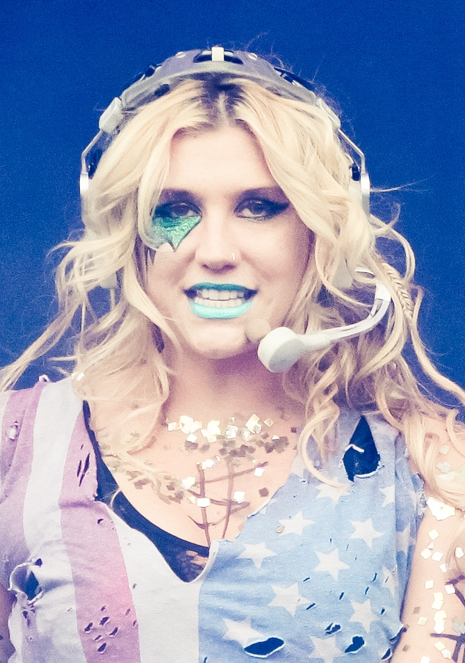 Kesha in 2011